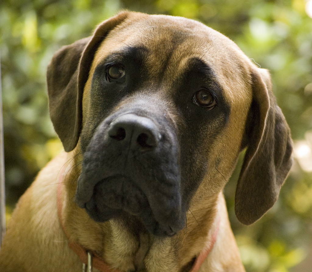 English Mastiff Adult